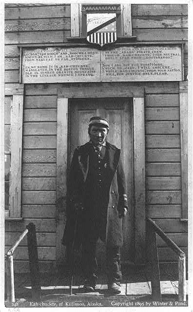 Title: Kah-chuckte, of Killisnoo, Alaska (Chief of Neltusken) Abstract/medium: 1 photographic print.